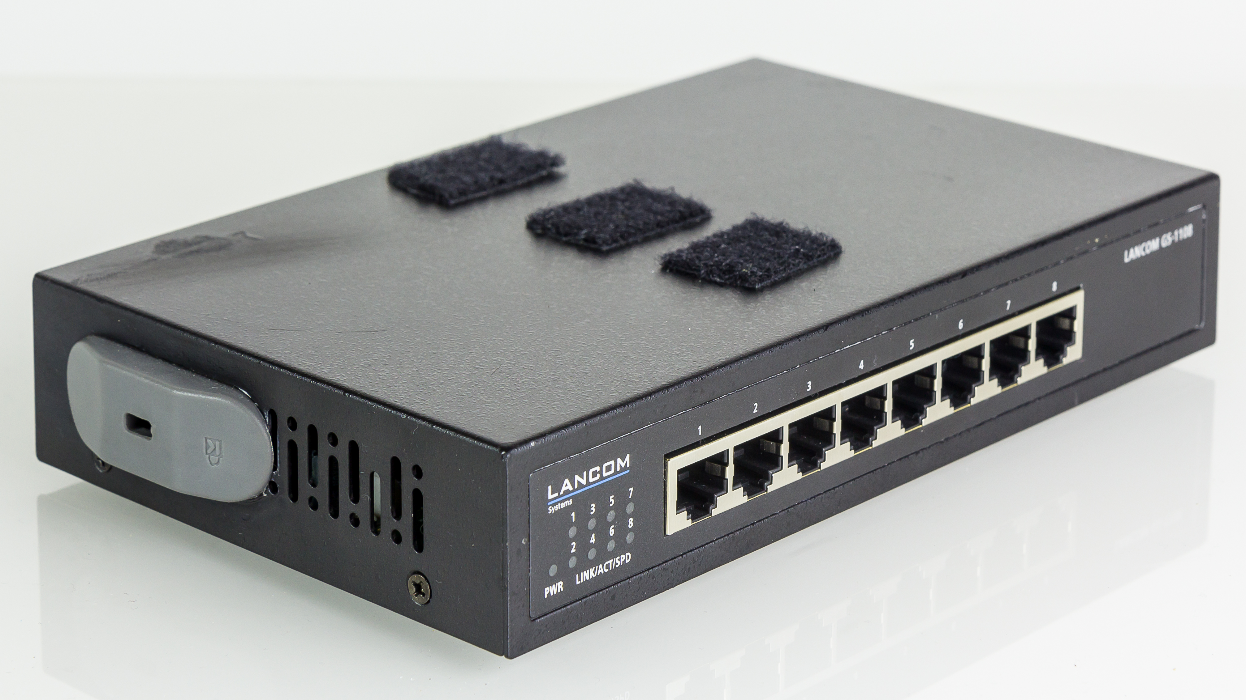 Lancom GS-1108 - Unmanaged 8-Port Gigabit Ethernet Switch